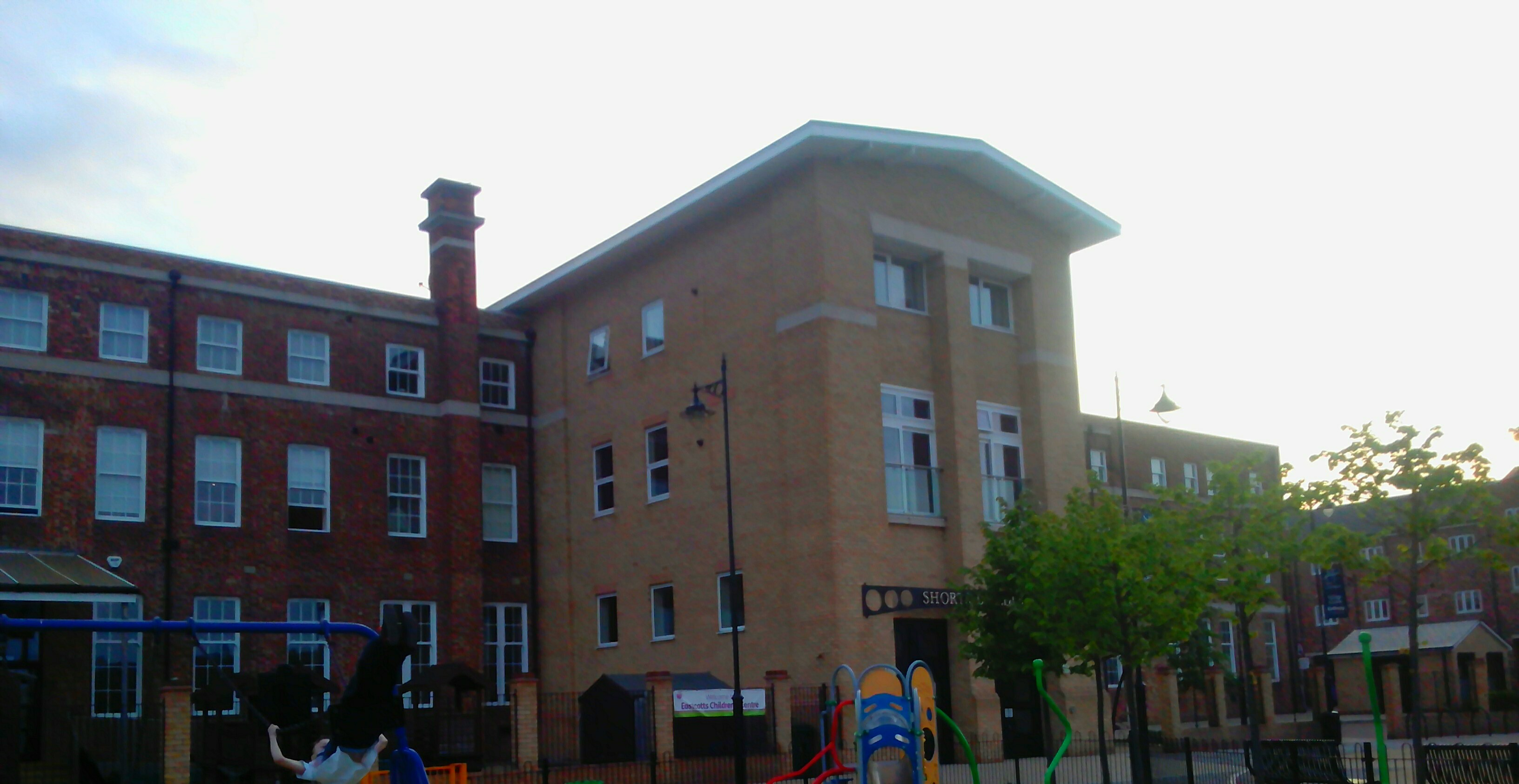 Behind the Shorts Building.